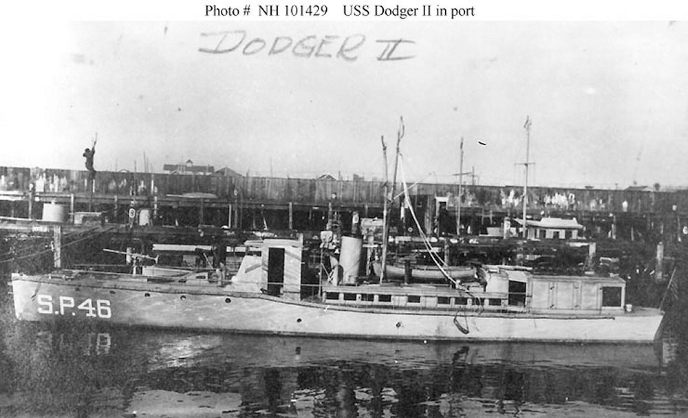 United States Navy patrol boat USS Dodger II (SP-46)